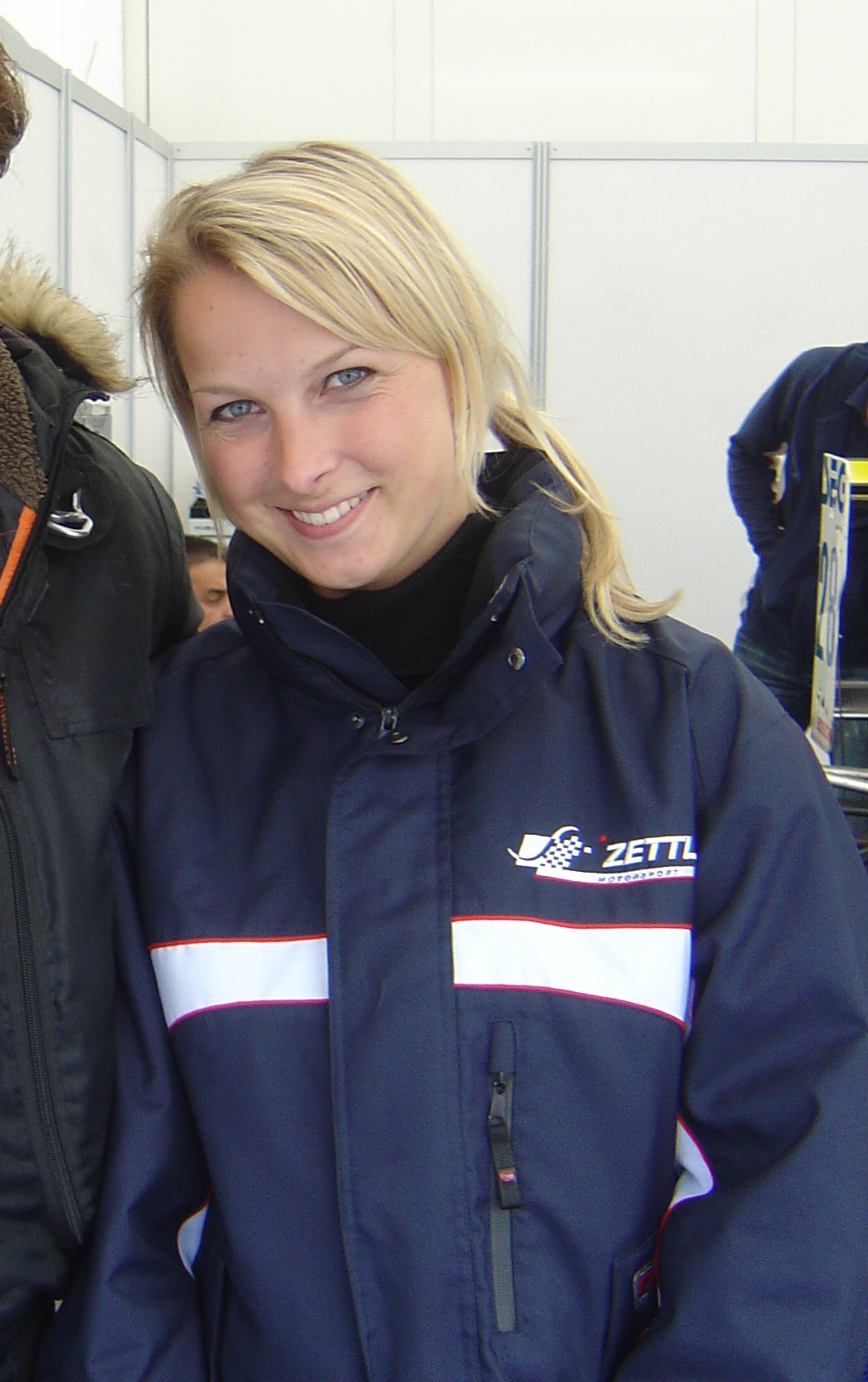 Shirley van der Lof: the photo was taken during 2009's ADAC GT Masters race weekend at Hockenheim